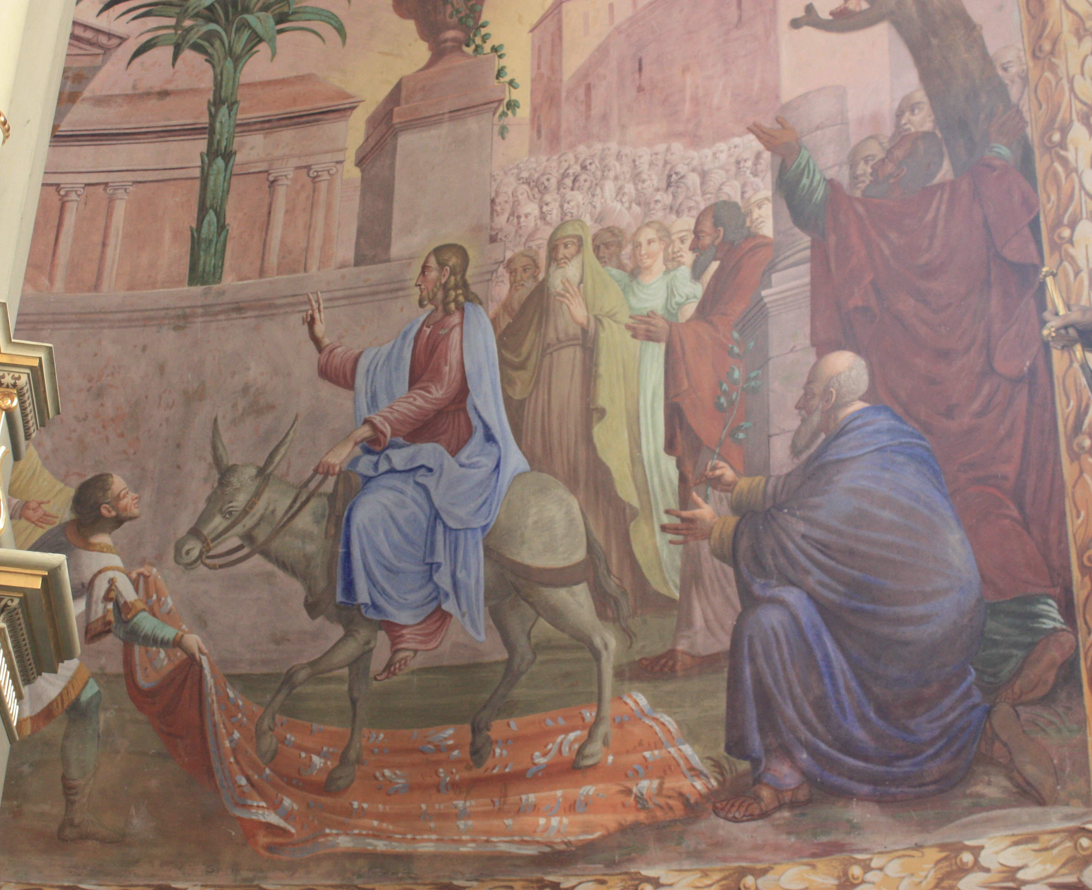 Parish church in Sagritz in the community of Großkirchheim - Entry into Jerusalem - detail